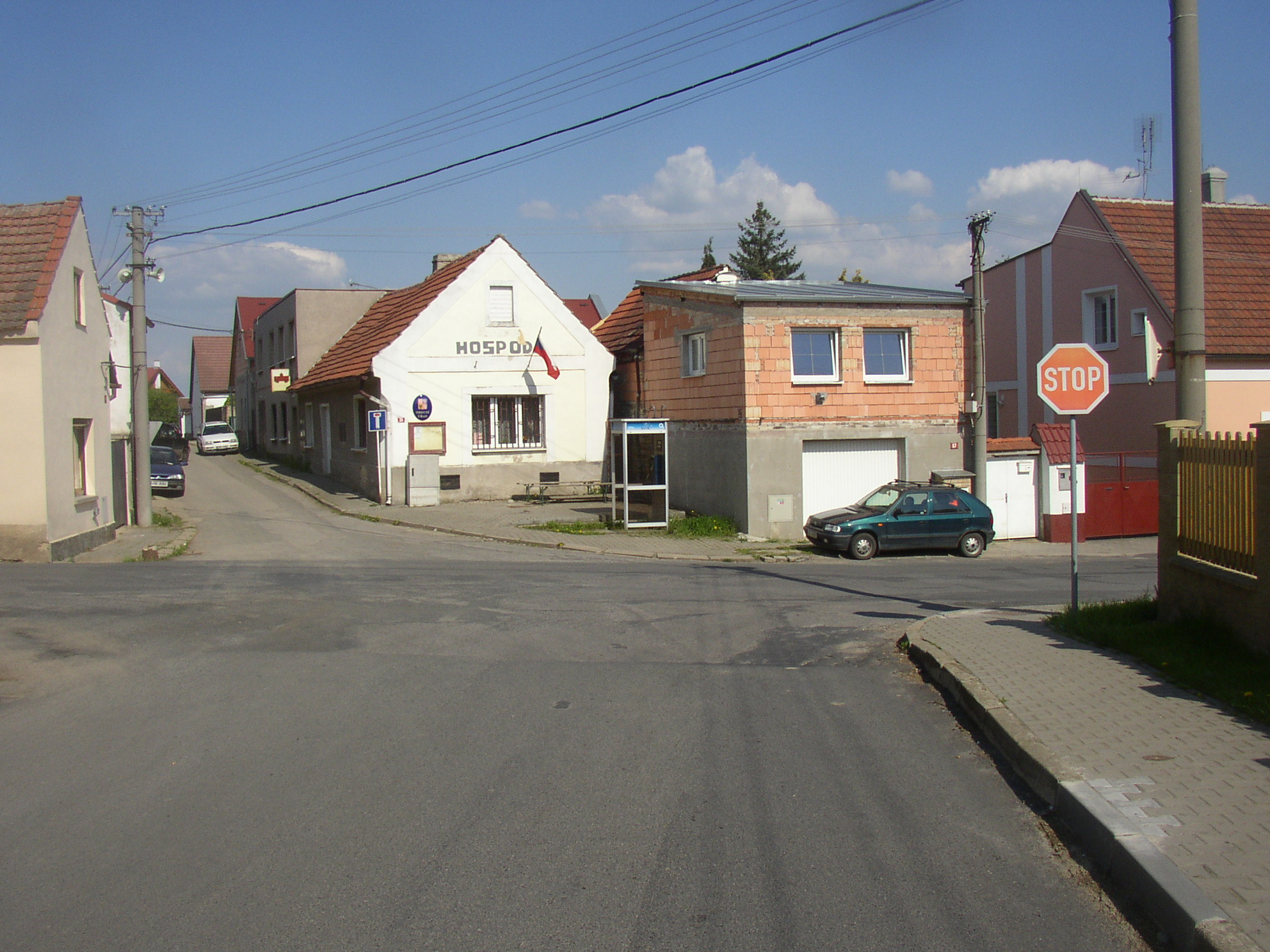 Dolany, Kladno District, Czech Republic. A pub and seat of local sministration at crossroads in middle of the village.